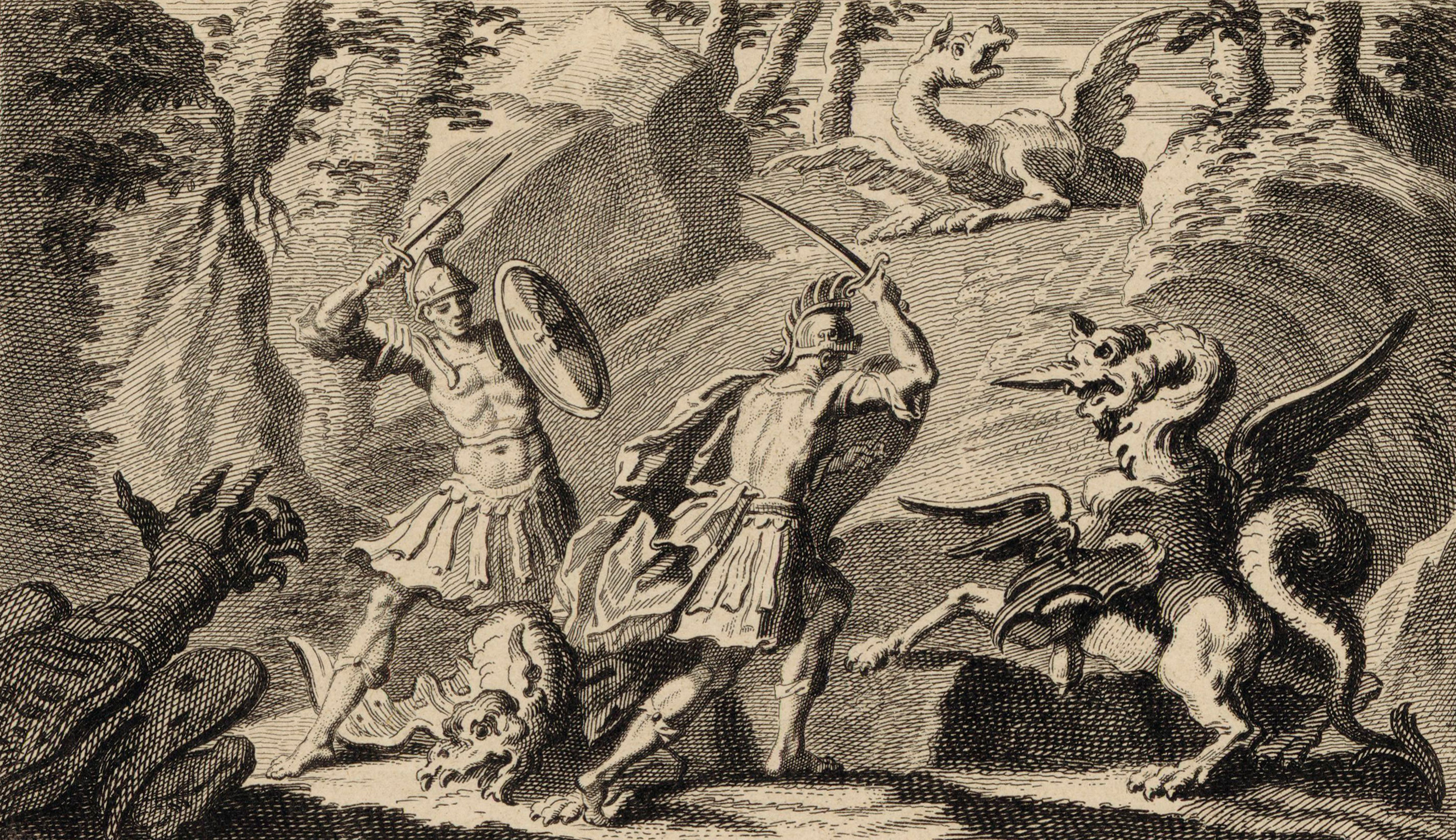 Lully - Armide - acte 4